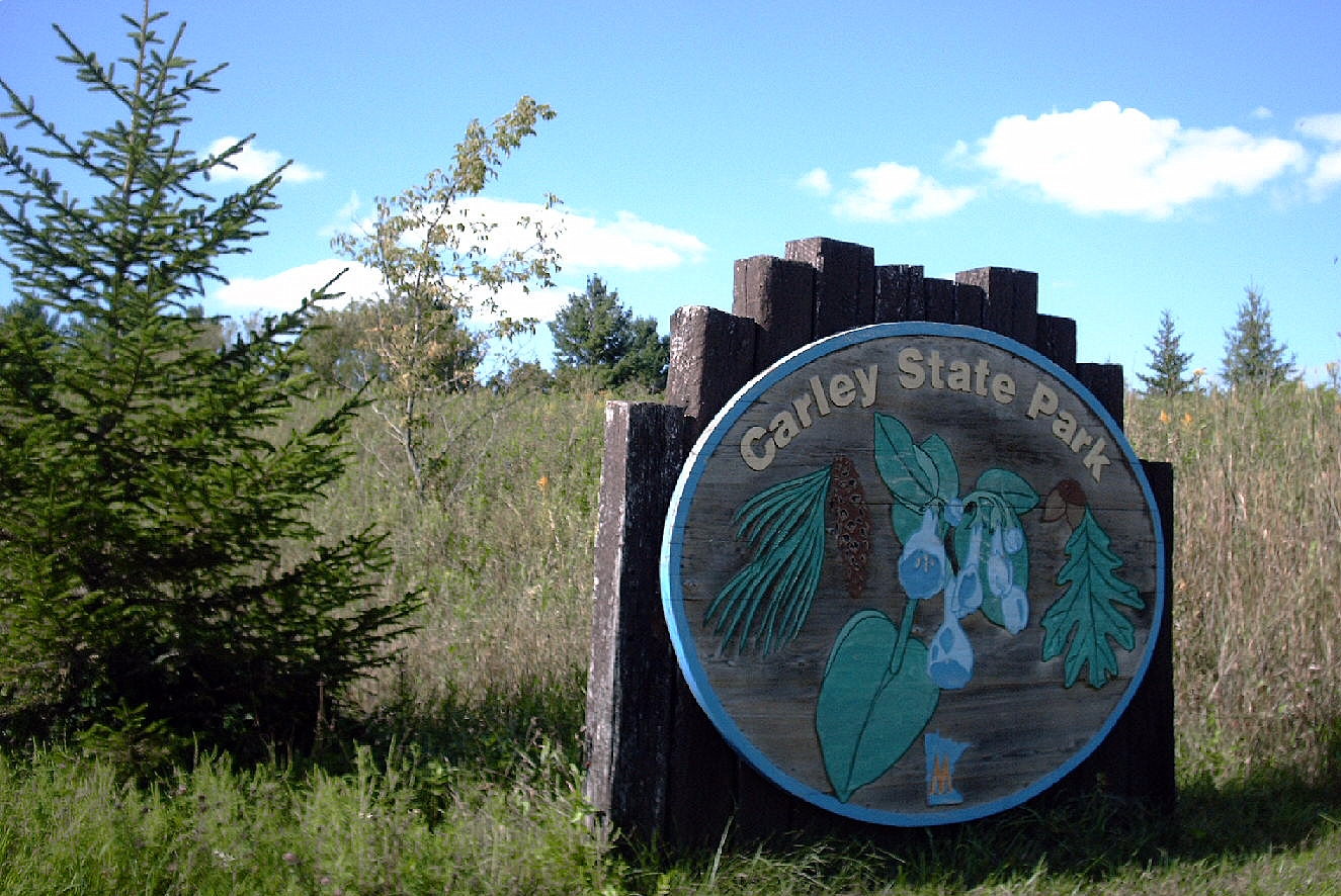 Photo I took of the entrance to Carley State Park in southeast Minnesota in August 2006. CC & GFDL.